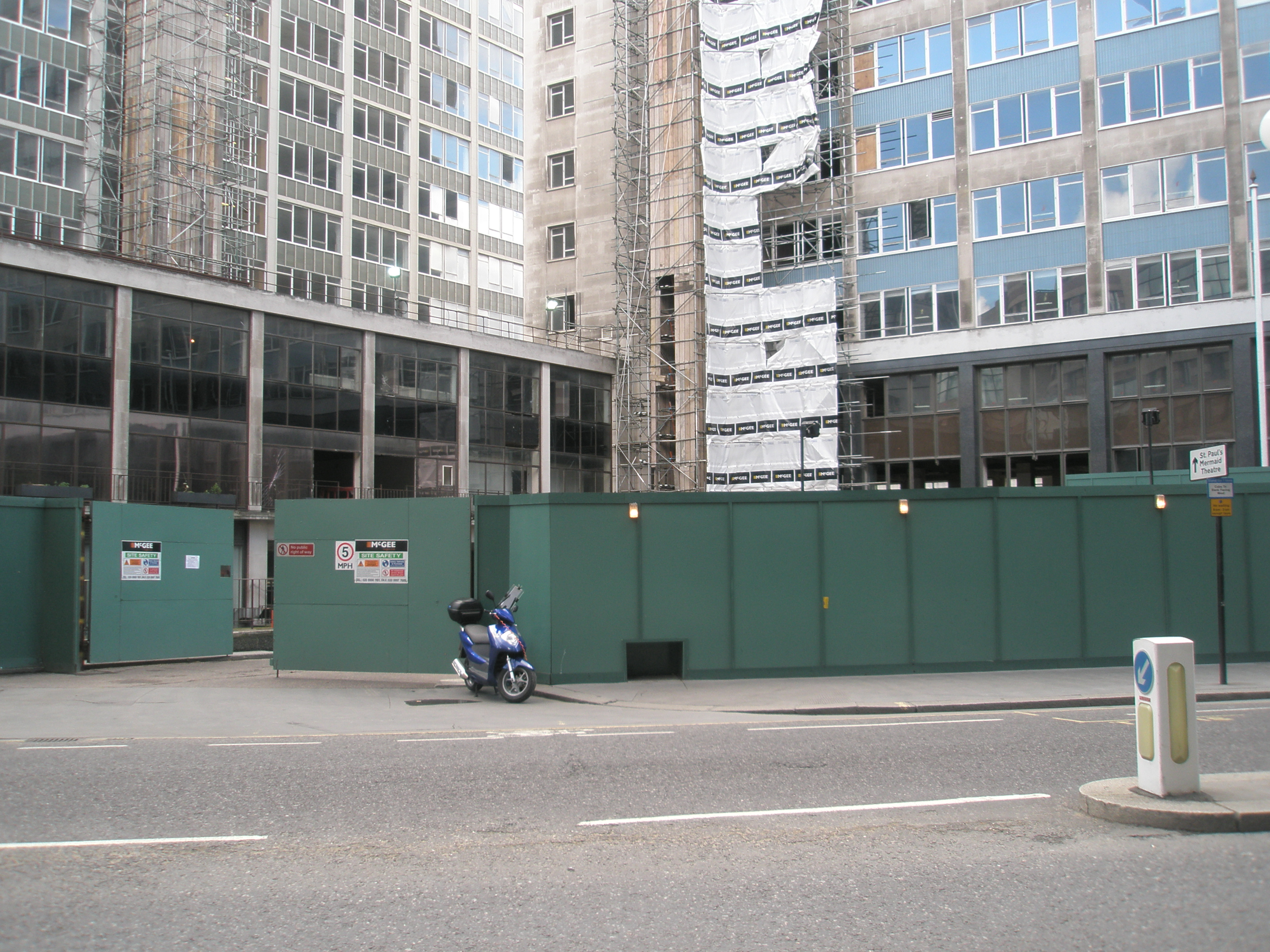 Bucklerbury House